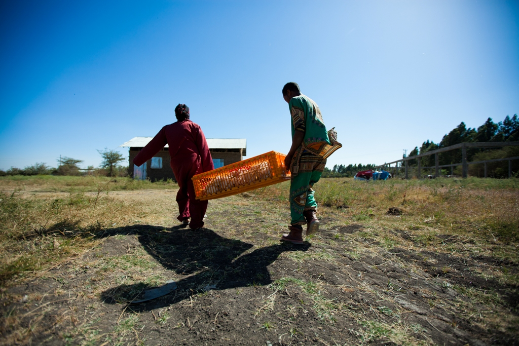 MOJO, ETHIOPIA - DECEMBER 12, 2011: Mr. Abebaw Gessese received a $128,000 loan from Dashen Bank thanks to USAID's Development Credit Authority's 50% credit guarantee. The loan enabled him to expand his poultry farm and employ more workers (half of which are women), add to the country's economy, increase exports, provide additional protein for clients, and clean water for the local community through his well. (Photos by Morgana Wingard)